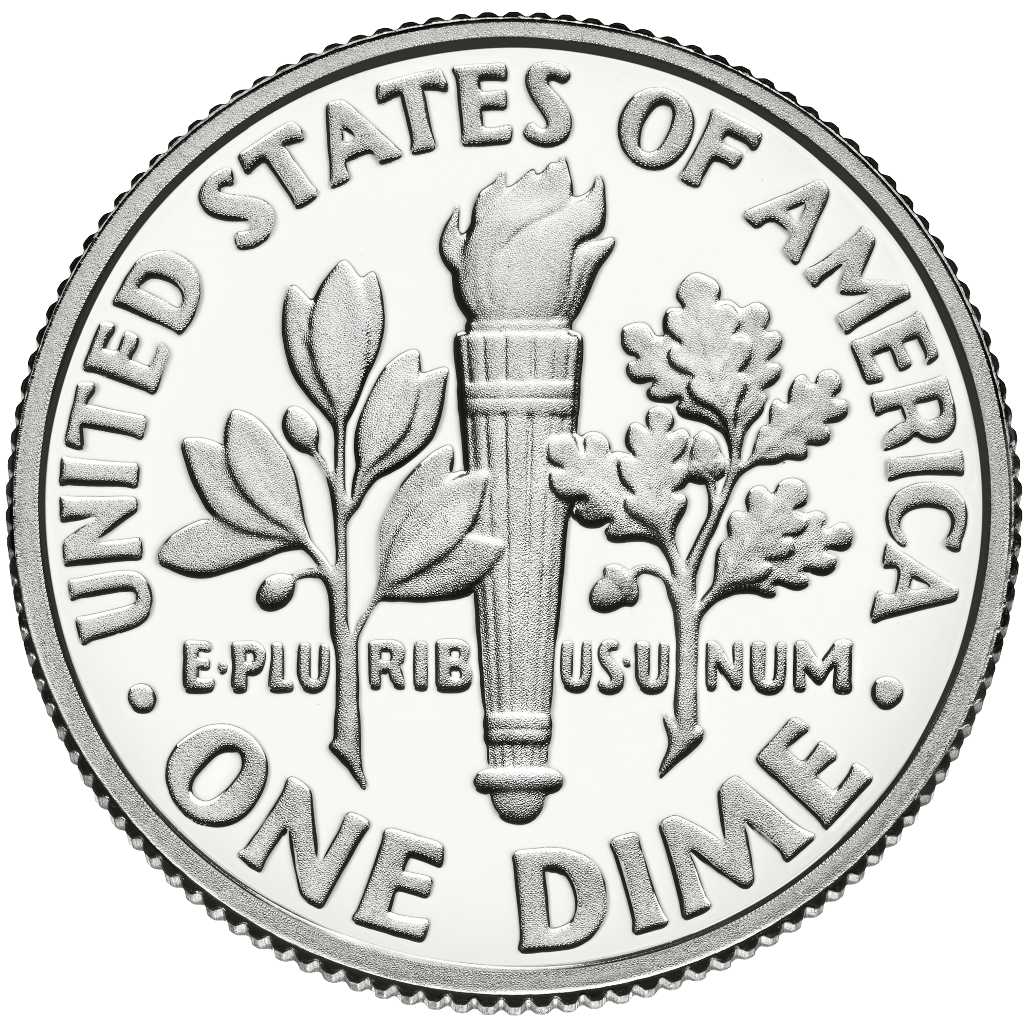 United States Dime (proof) Reverse